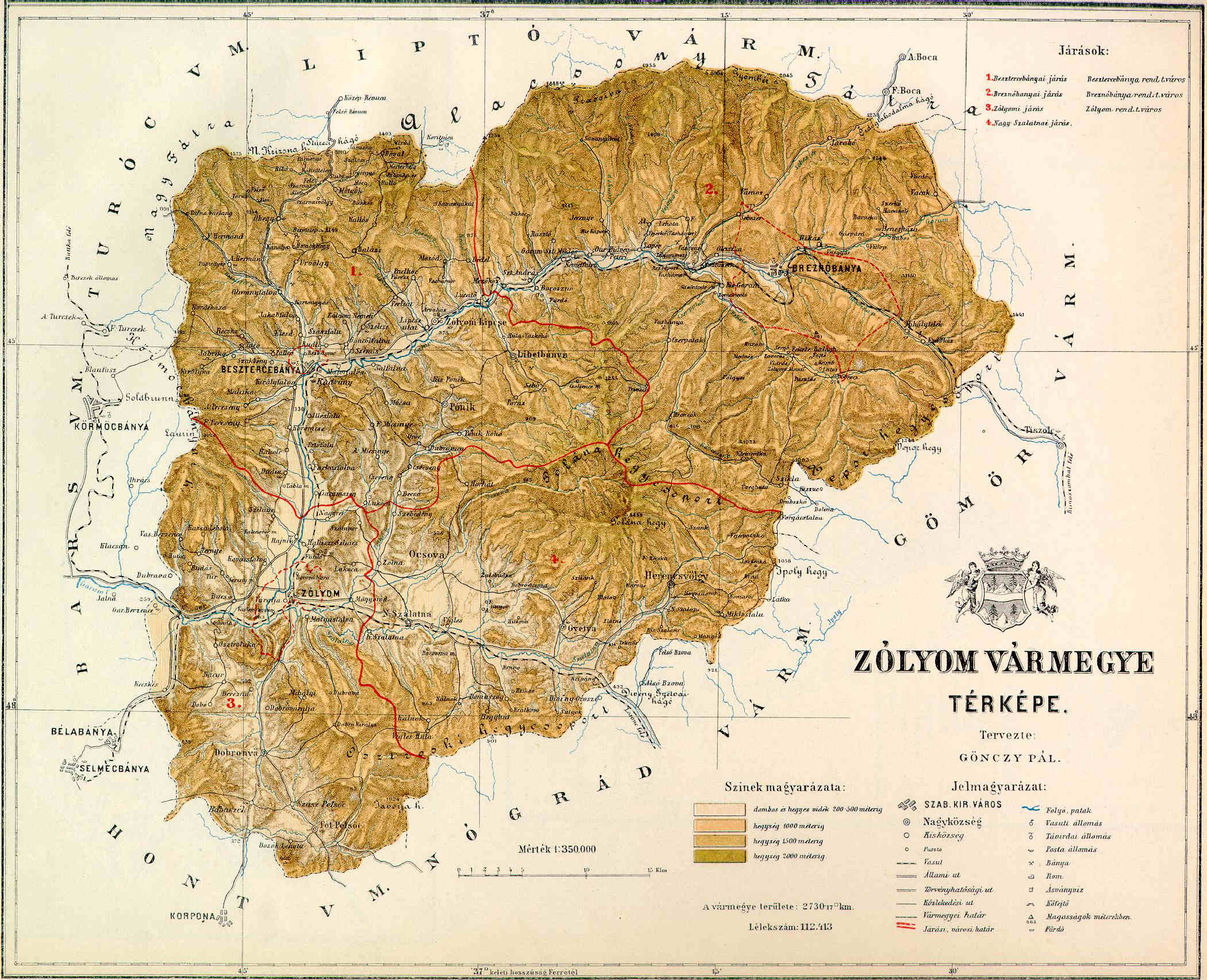 County of Zólyom in the pre-Trianon Kingdom of Hungary. Komitat Zólyom w Królestwie Węgier przed traktatem w Trianon.